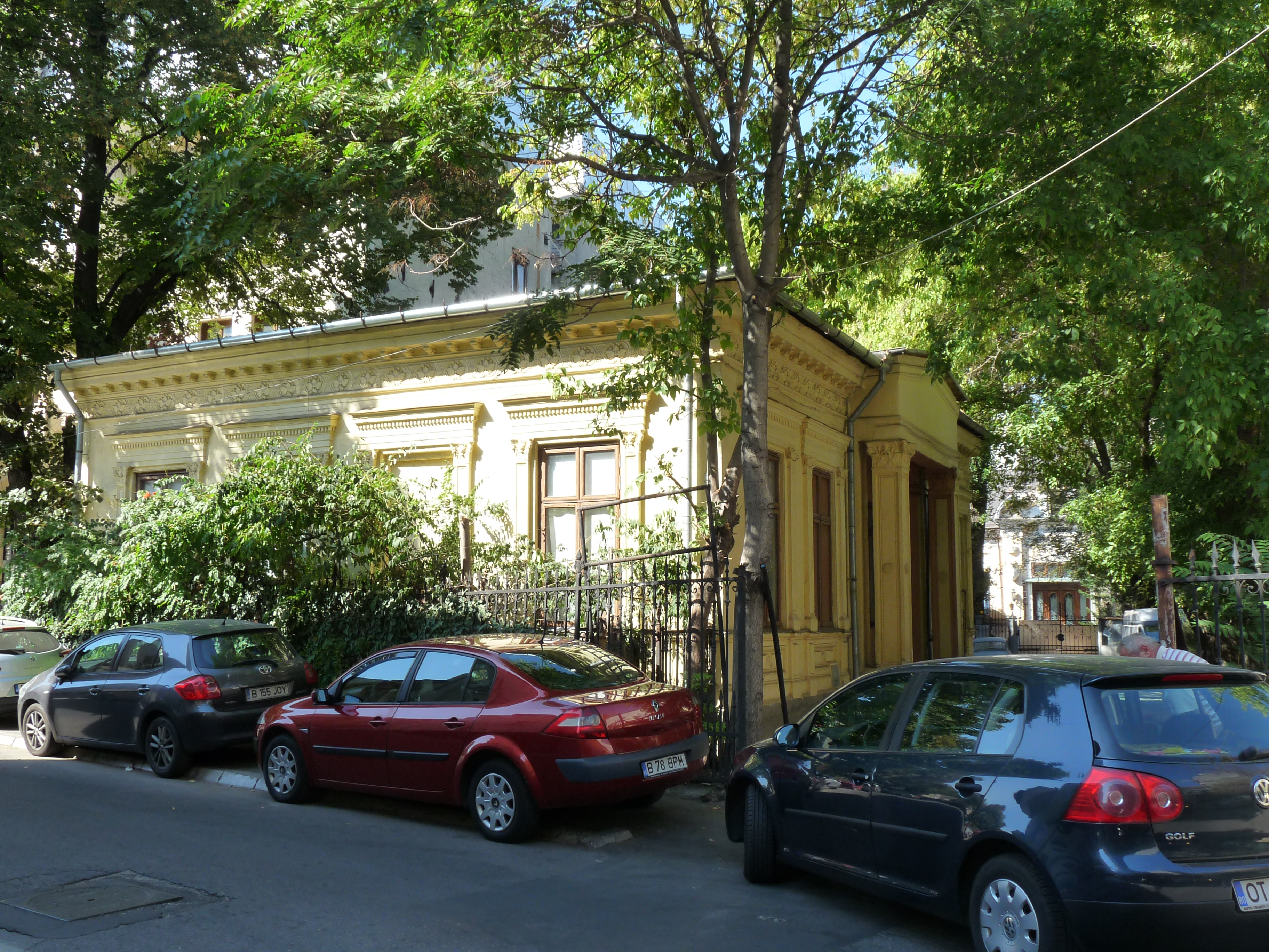 Building from Tomas Masaryk street 27 in Bucharest, RomaniaRomână: Clădire monument istoric din strada Tomas Masaryk nr. 27, București, România